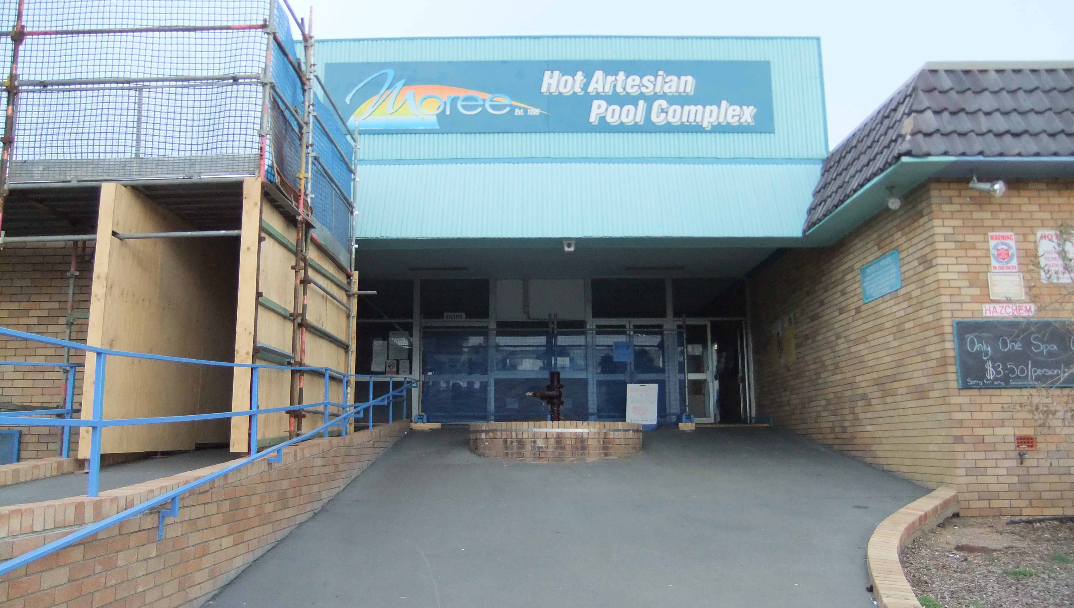 The Main Entrance to the Hot Artesian Baths - Taken on the Wednesday, 13th July 2011 at 3:52pm.